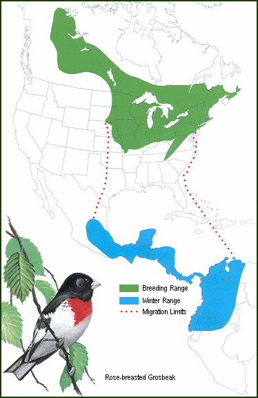 Migration route of the Rose-breasted Grosbeak (Pheucticus ludovicianus)